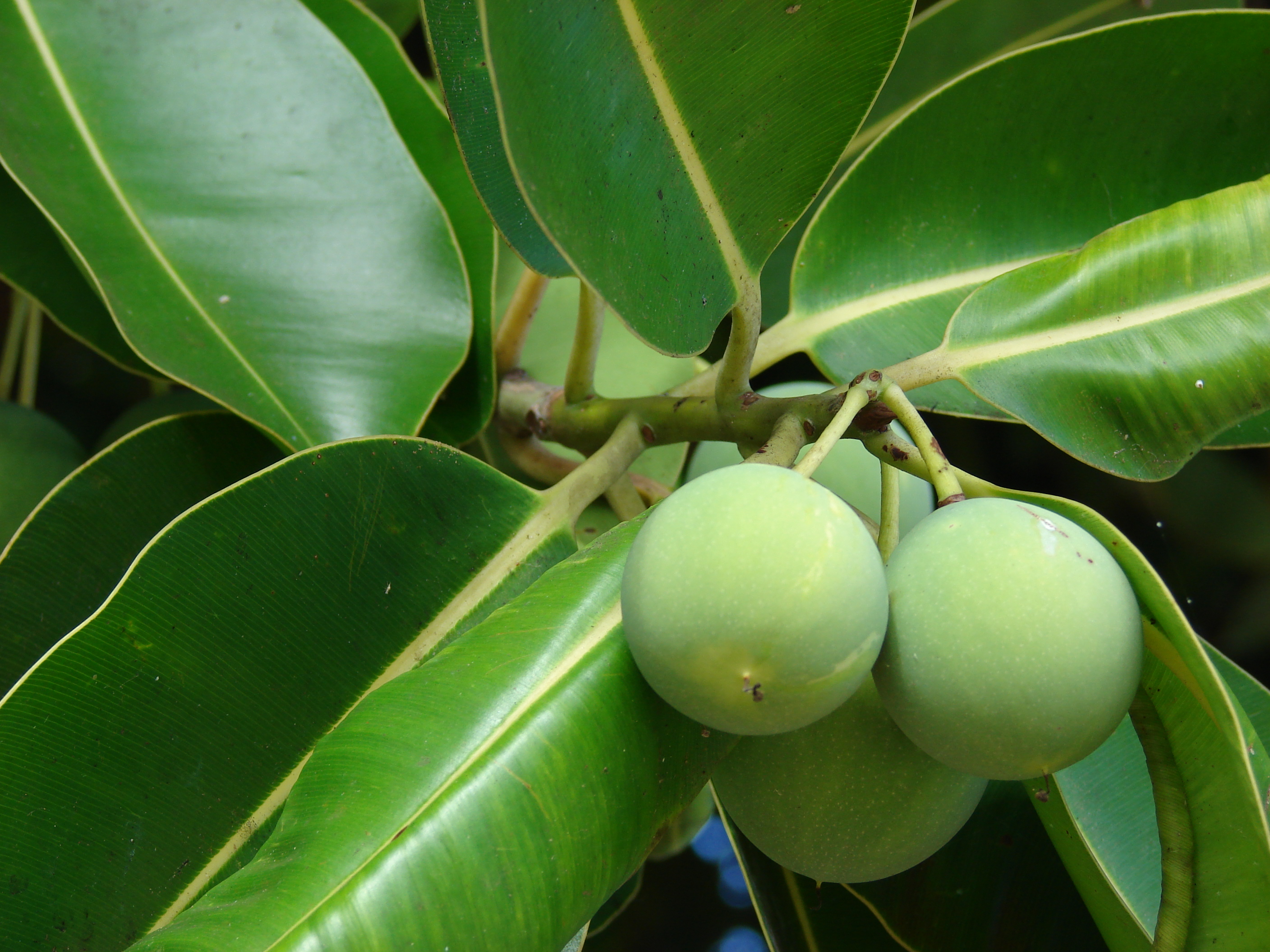 Calophyllum inophyllum (flowers). Location: Maui, Maui Nui Botanical Garden